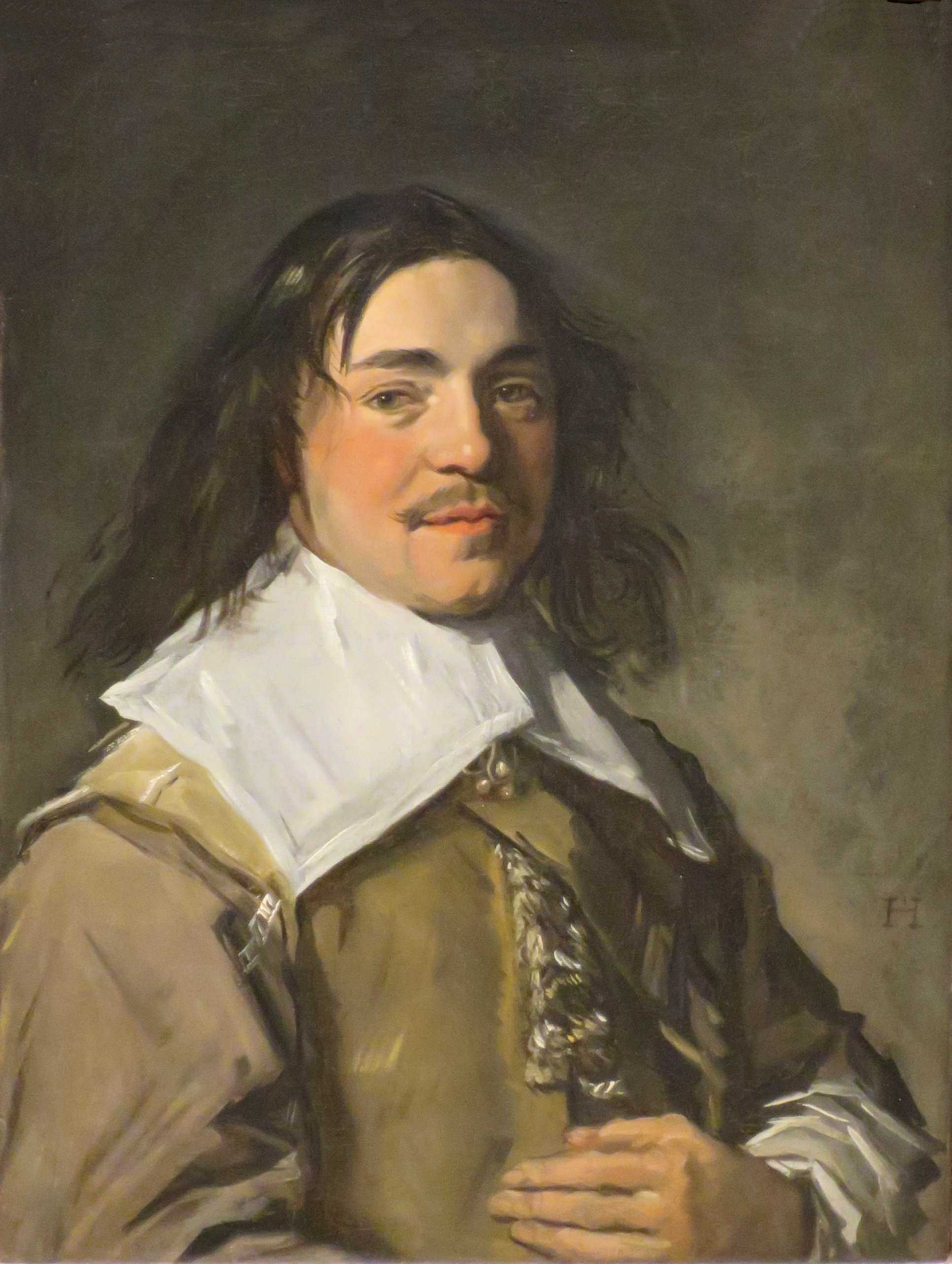 Portrait of a Young Man